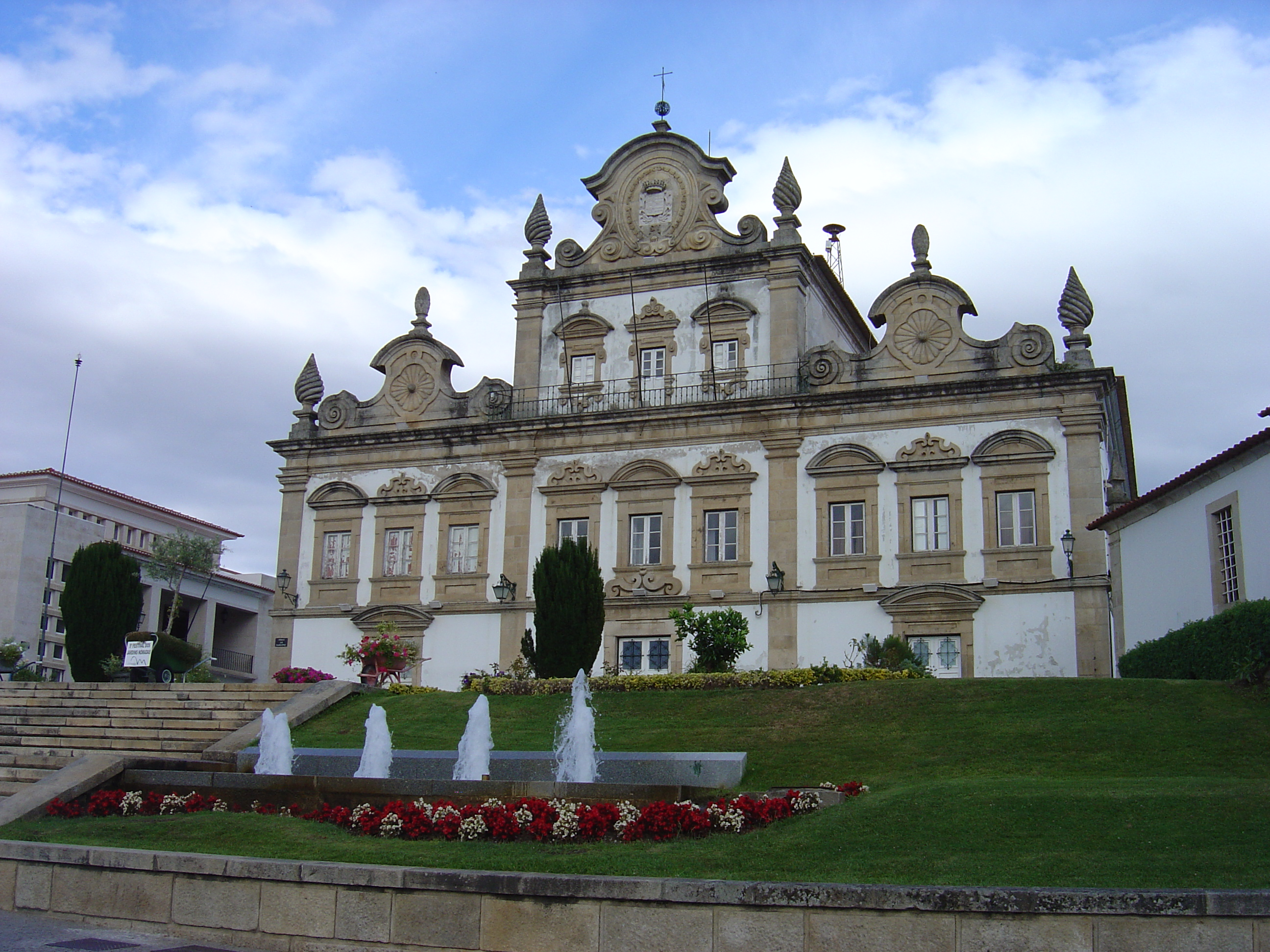 Mirandela, Portugal